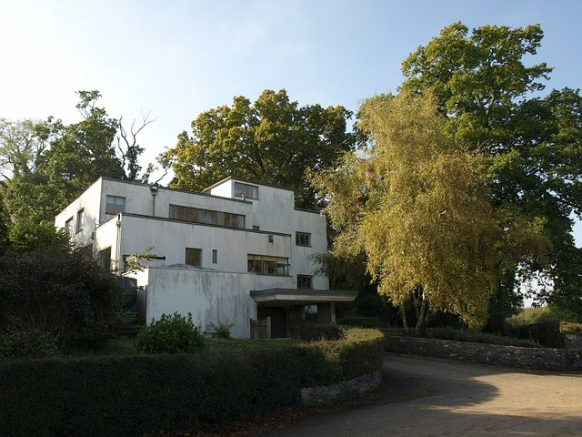 Warren House, Dartington, Devon, England. The houses in Warren Lane "were designed in the 1930s by William Lescaze and Robert Hening and built by Staverton Builders ... Warren House was built in 1935 by William Lescaze, with assistance from Robert Hening, and is a superb example of an international modern style house. It was built for Kurt Jooss as teaching space and accommodation for the Ballet Jooss which was based on the Dartington Hall Estate between 1934 and 1940. Later, Warren House was for many years the home of Peter Cox, the Principal of Dartington College of Arts, and latterly it was the base for the Dartington Social Research Unit.